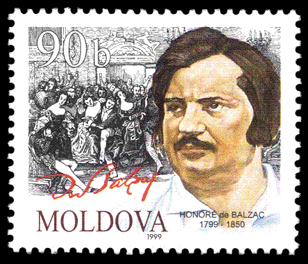 Stamp of Moldova; Honoré de Balzac